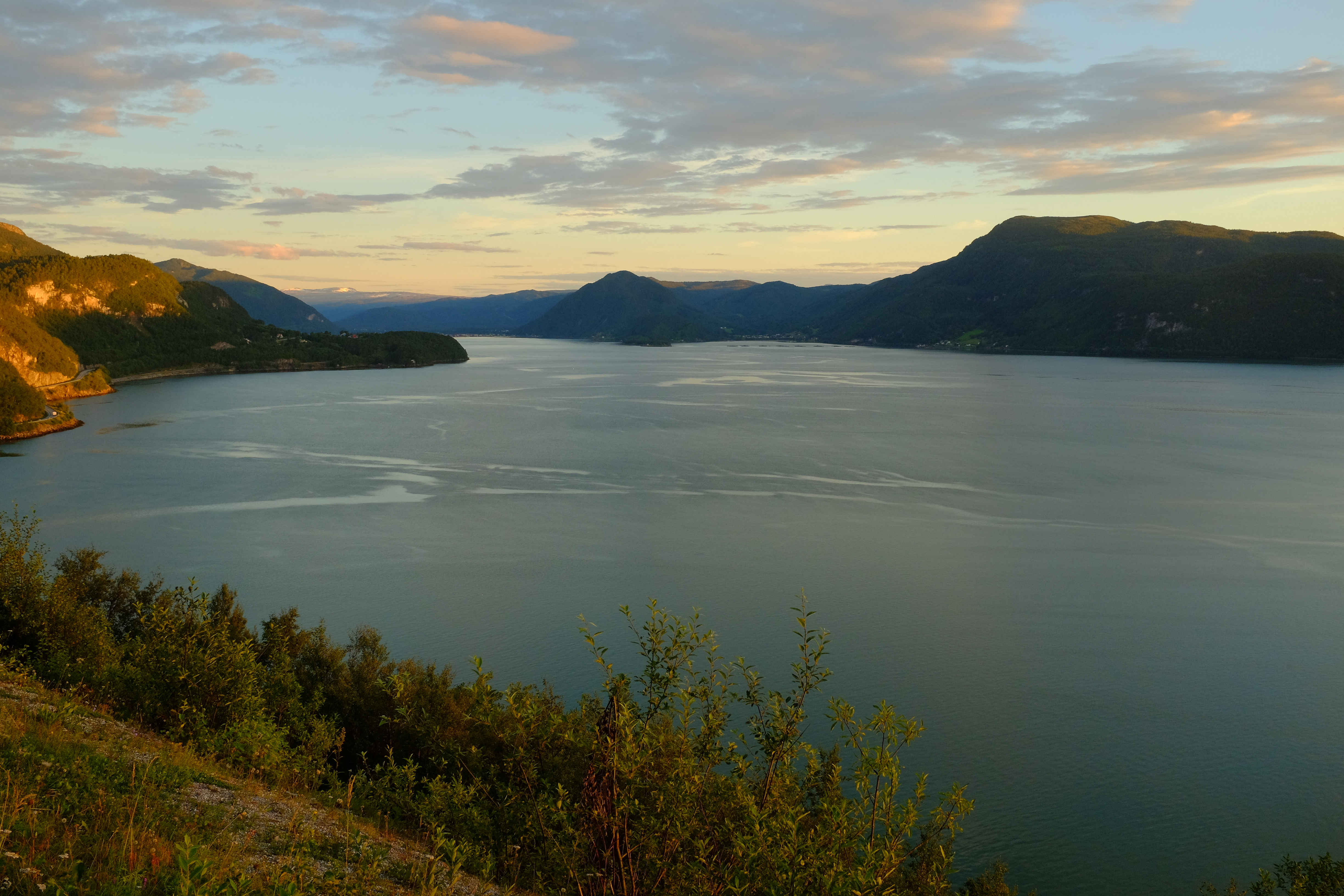 Saltdalsfjorden seen from E6 at Setsåhøgda. Saltdalsfjorden is a part of Skjerstadfjord in Saltdal municipality in Nordland, Norway.